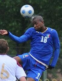 Nicolao Dumitru in Italy U-19